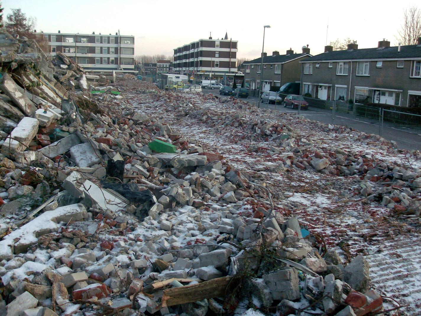 The Plaspoelstraat (Plaspoel Street) in Leidschendam, Netherlands, as it looked in January 2010.